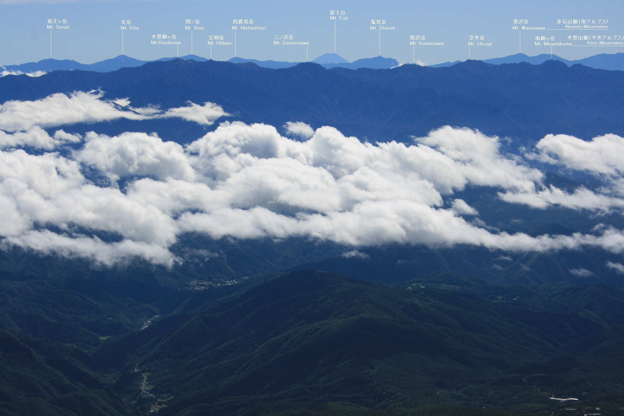 Kiso Mountains, Akaishi Mountains and Mount Fuji seen from Mount Ontake in Japan.